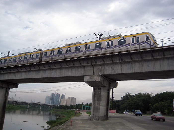 An MRT-2 train traveling across The Marikina River.